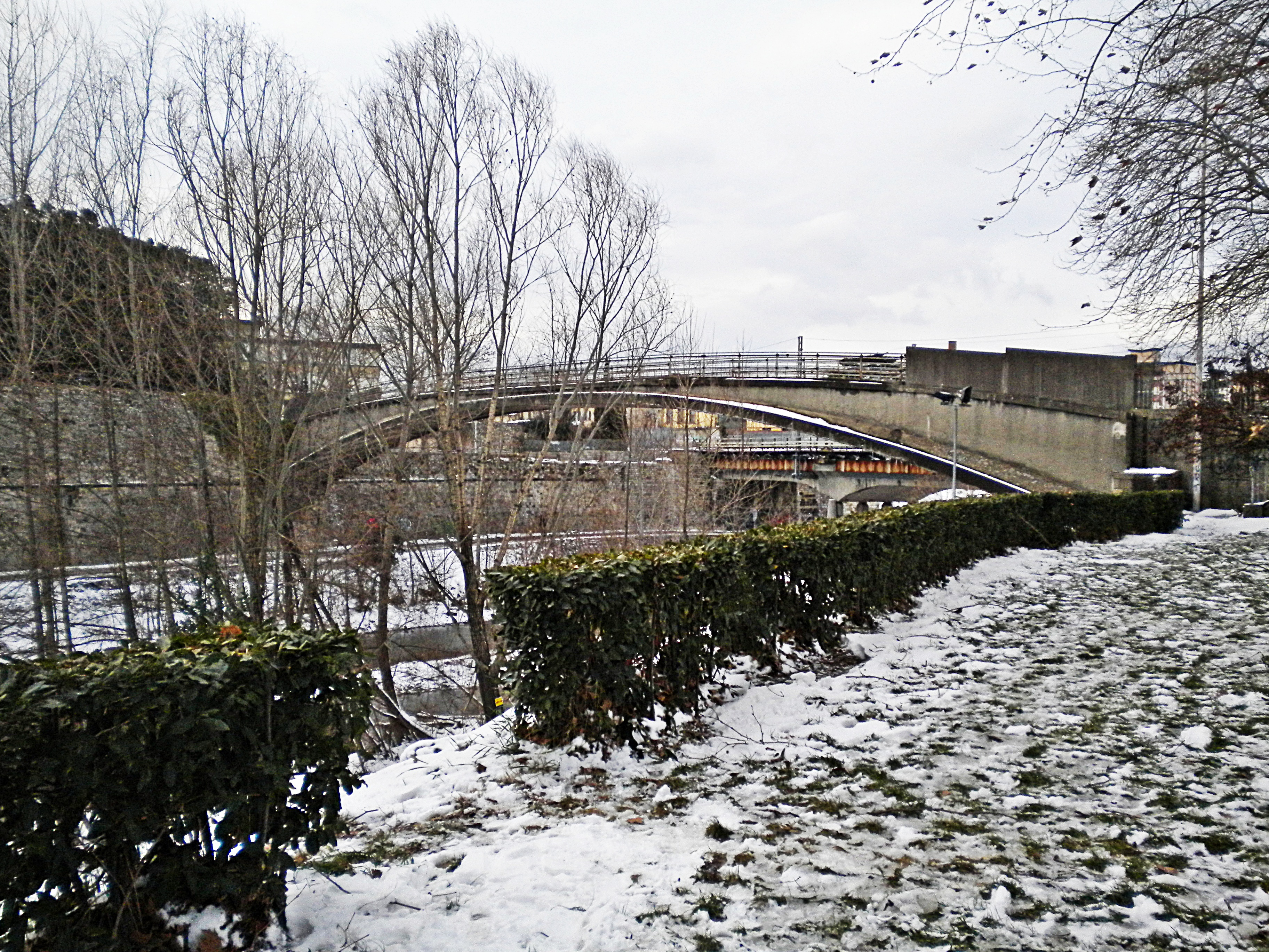 the footway with snow